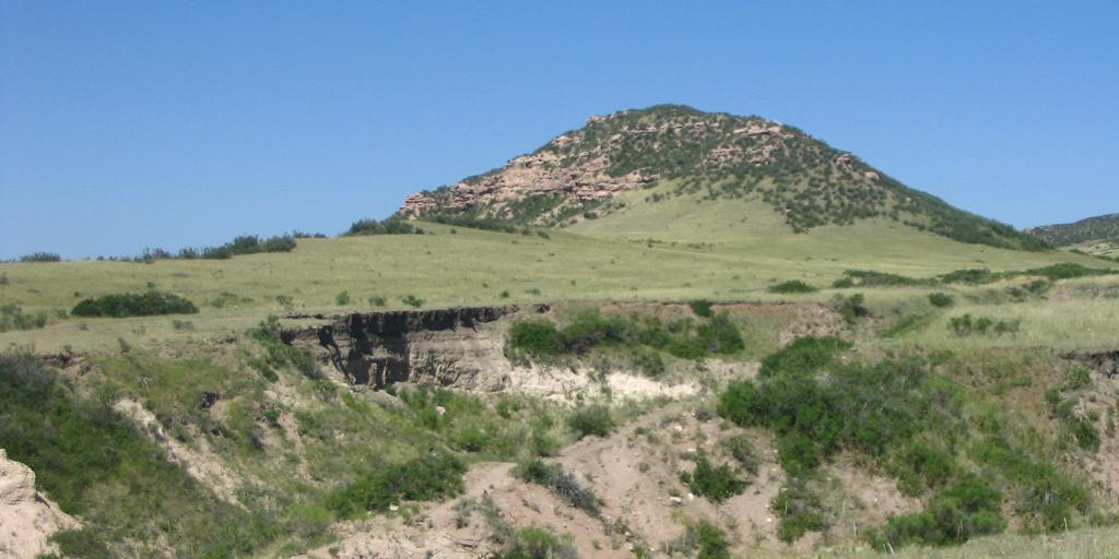 The arroyo surrounding the Lindenmeier archaeological site (Folsom culture) on Soapstone Prairie Natural Area near Fort Collins, Colorado.